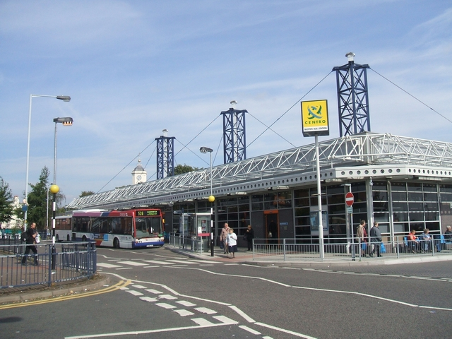 Bilston Bus Station. Adjoining the Midland Metro Station this provides a local transport interchange.